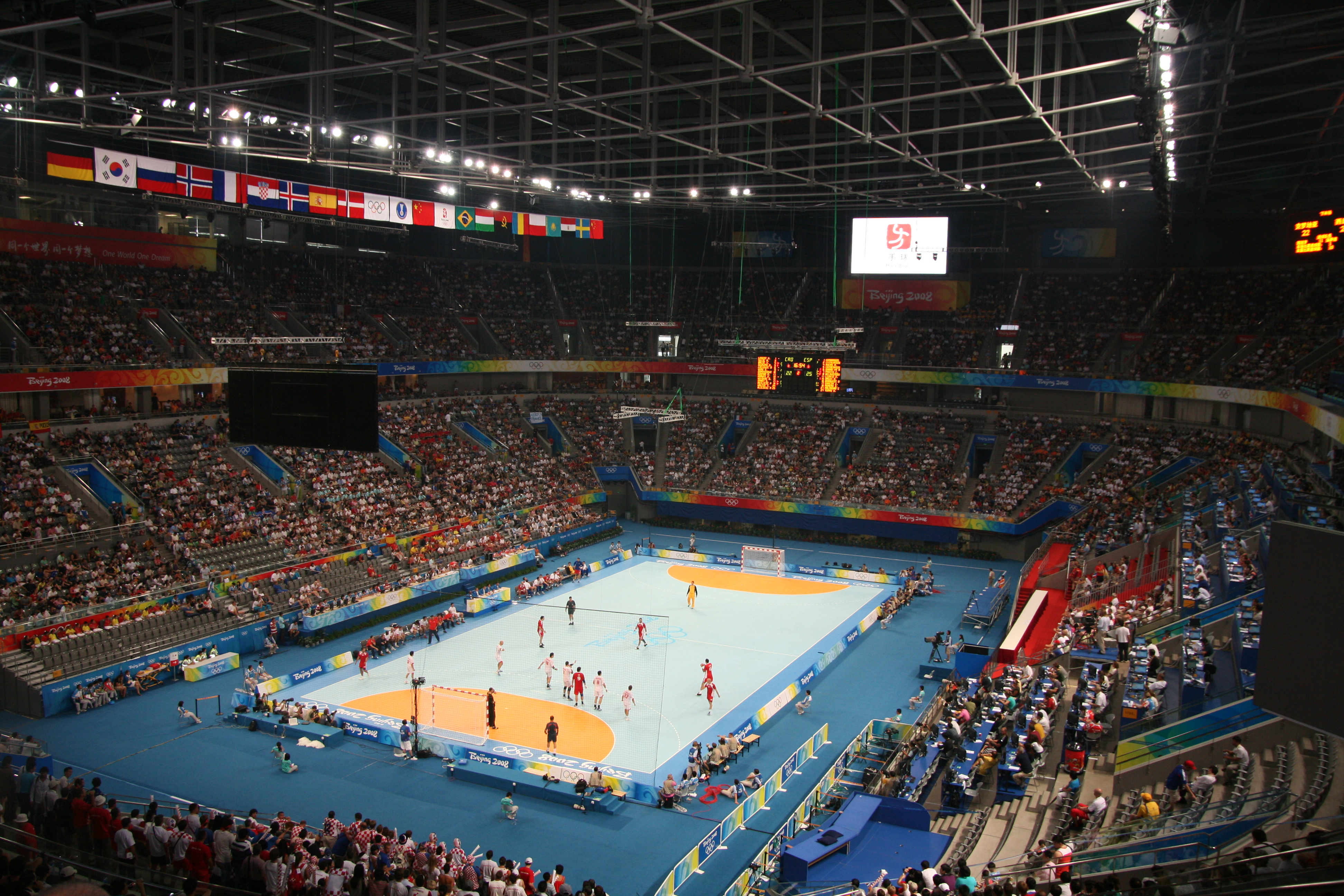 Men's Bronze Medal Handball Match at the 2008 Summer Olympics - Croatia vs Spain National Indoor Stadium / Sun Aug 24 2008 / Start Time: 13:30 [1]